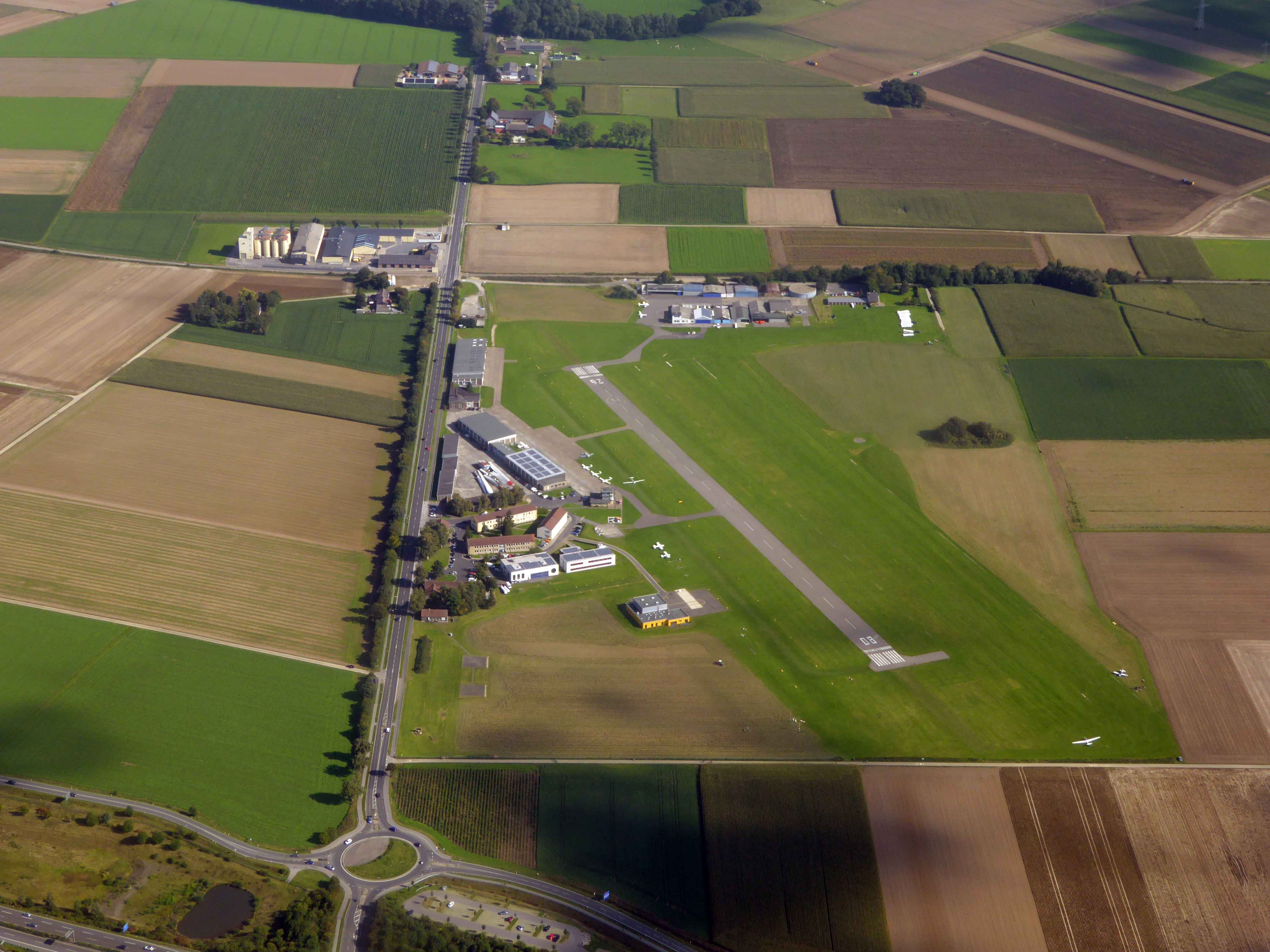 Aerial view of Merzbrück Airport